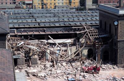 Bombing at Bologna: August 2nd 1980